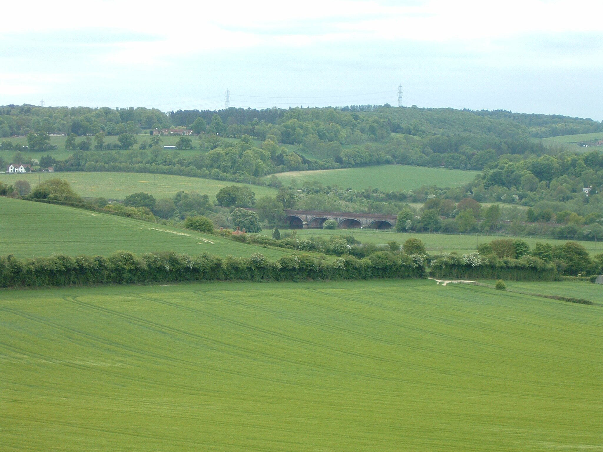 The Berkshire Downs near Goring-on-Thames, Gatehampton Railway Bridge is in the middle ground. Mid afternoon photo.